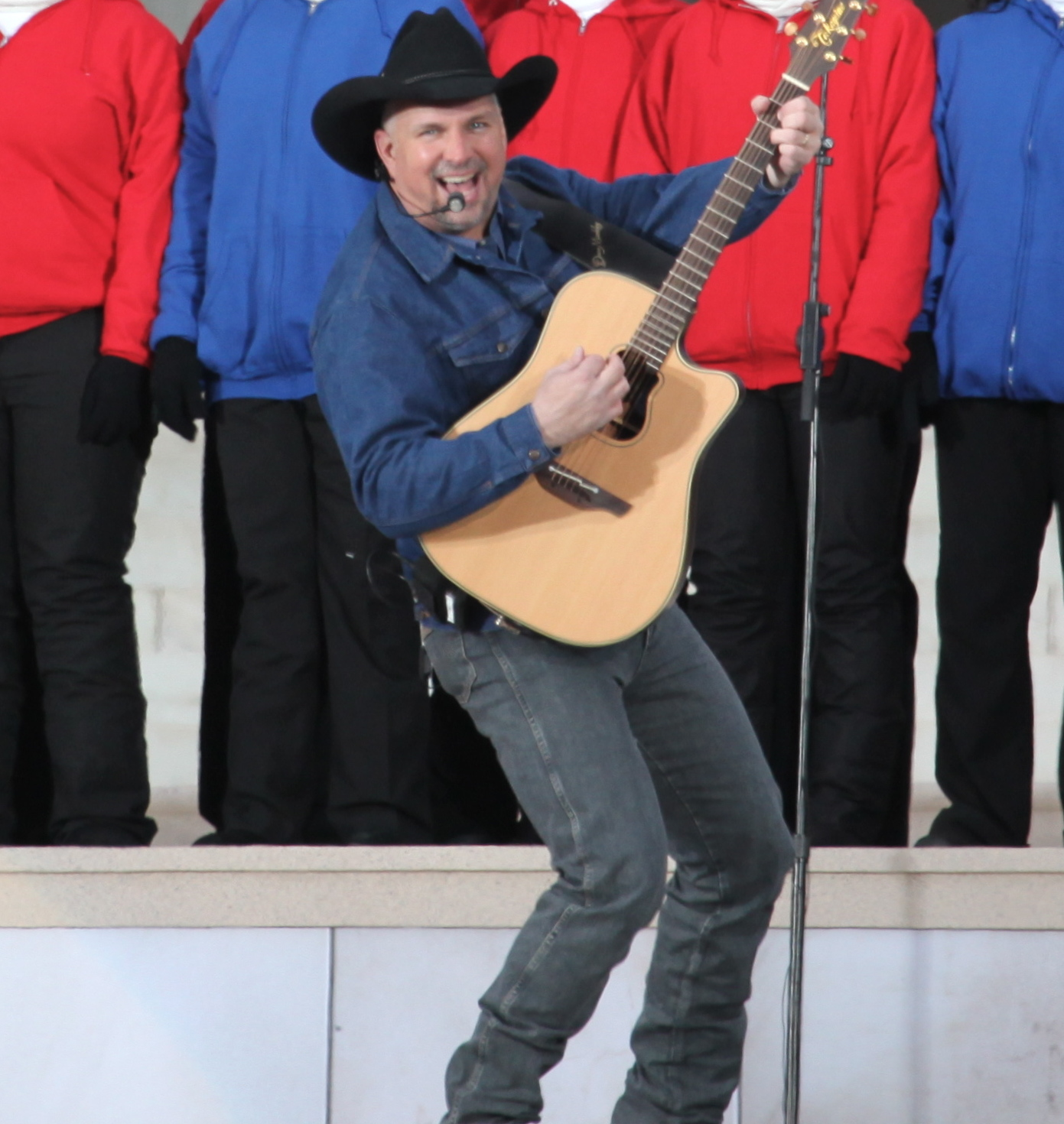 singin’ American Pie.